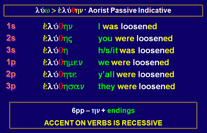 Greek: Aorist Passive Indicative of luo